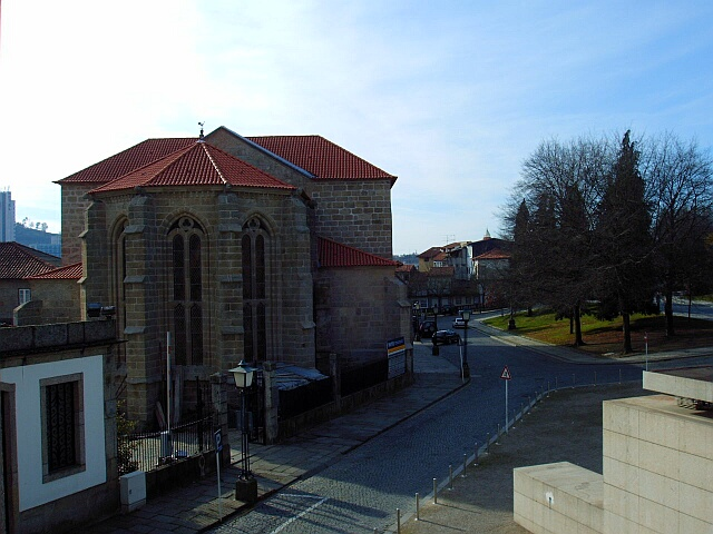 Square of São Francisco, as seen from the shopping center "São Francisco Centro", and on the left the apse of the Church of São Francisco.